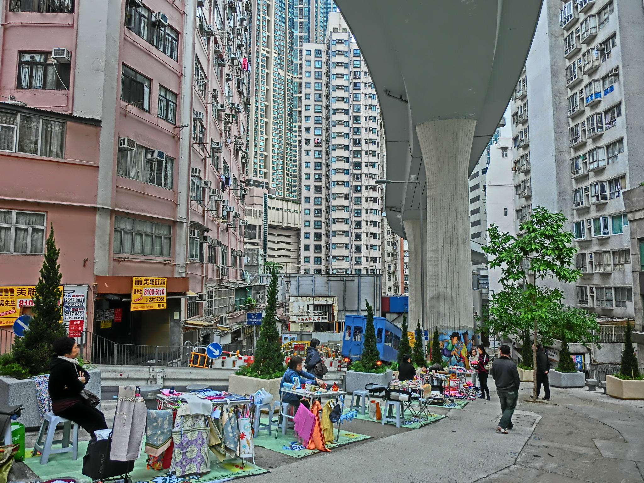 山道 西區墟市, Western Flea Market, Hill Road, Shek Tong Tsui, Hong Kong